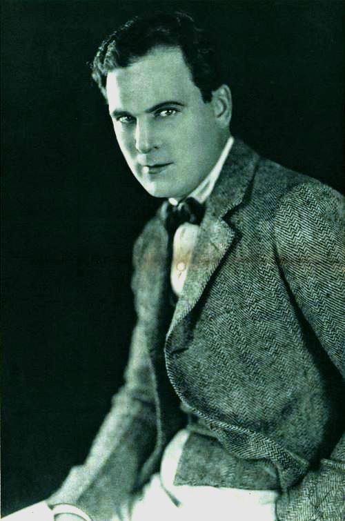 Actor Thomas Meighan, on pages 16 and 17 of the March 25, 1922 Movie Weekly.